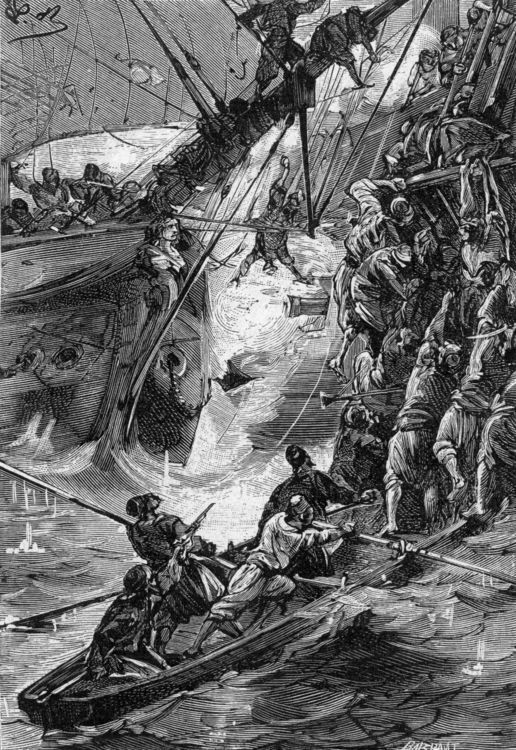 An illustration from Jules Verne's novel "The Archipelago on Fire" drawn by Léon Benett.